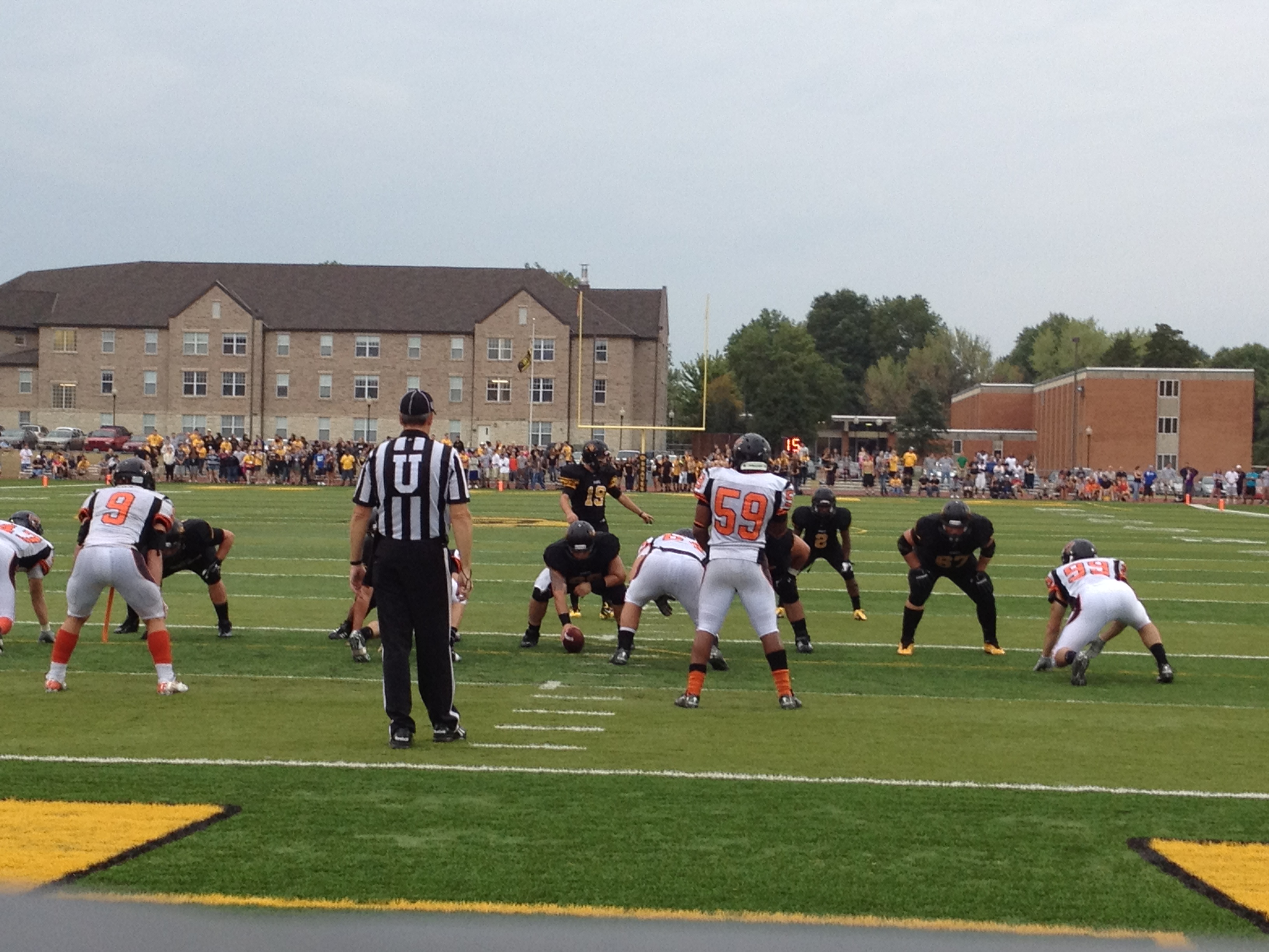 Ottawa University Braves football offense lined up against Baker University